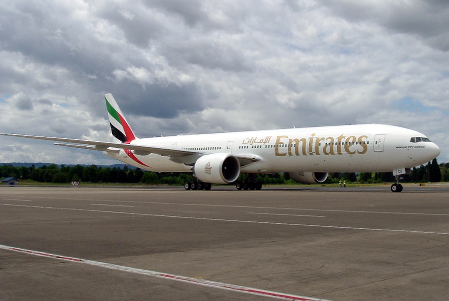 Emirates Airline Boeing 777 at an airport.